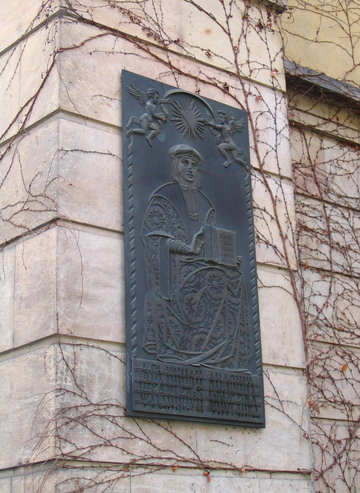 Commemorative Plaque of Francysk Skaryna in Prague